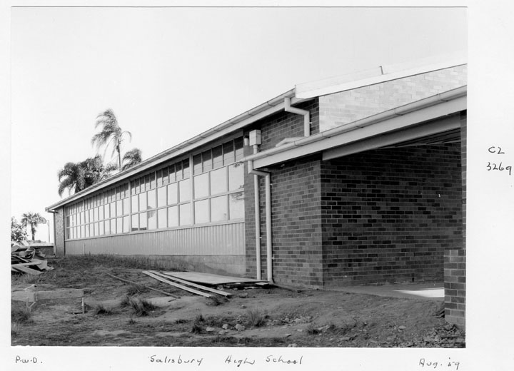 Salisbury State High School - Brisbane. (Original photo caption makes reference to Public Works Department)